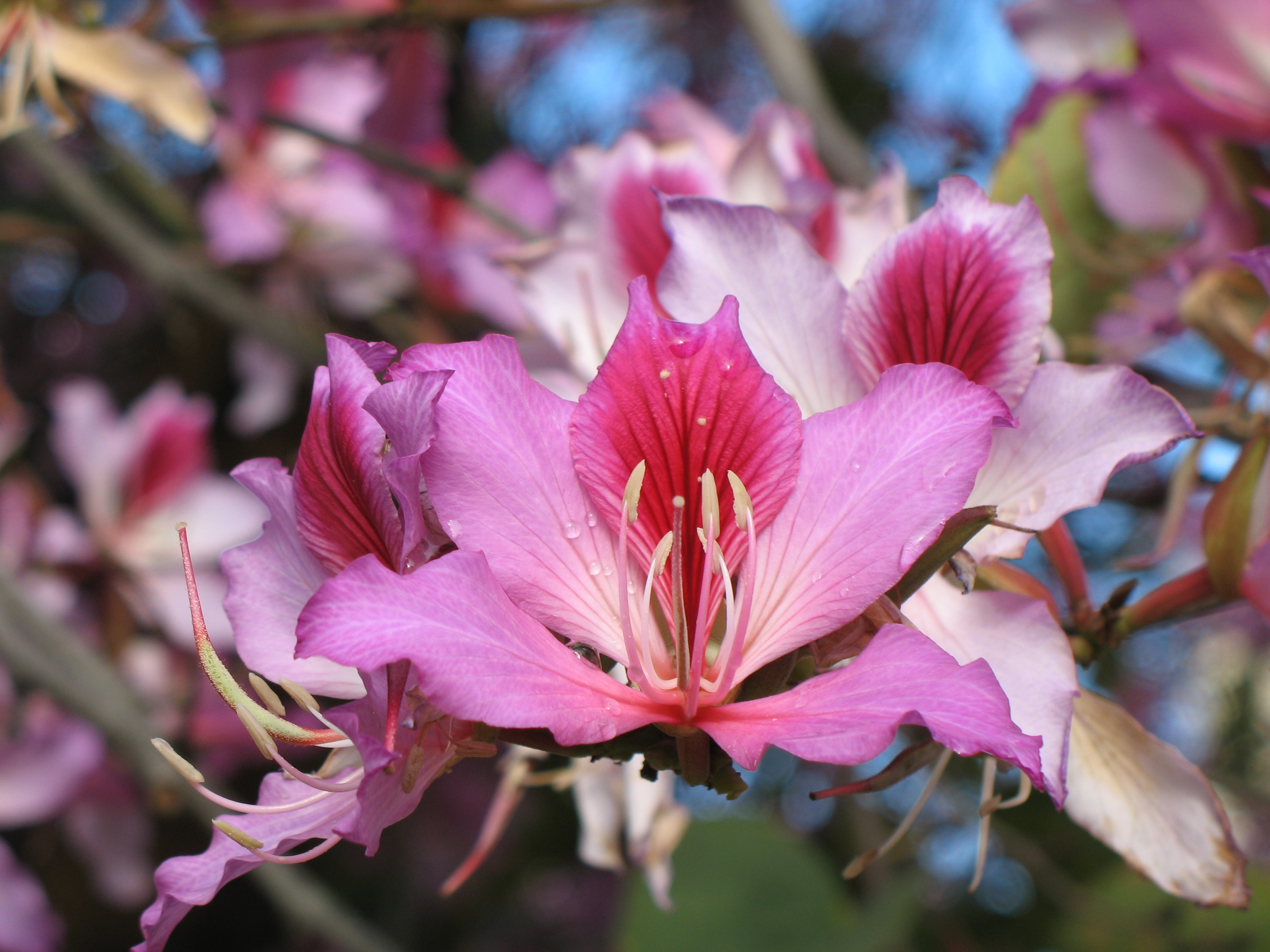 Hong Kong Orchid tree flower